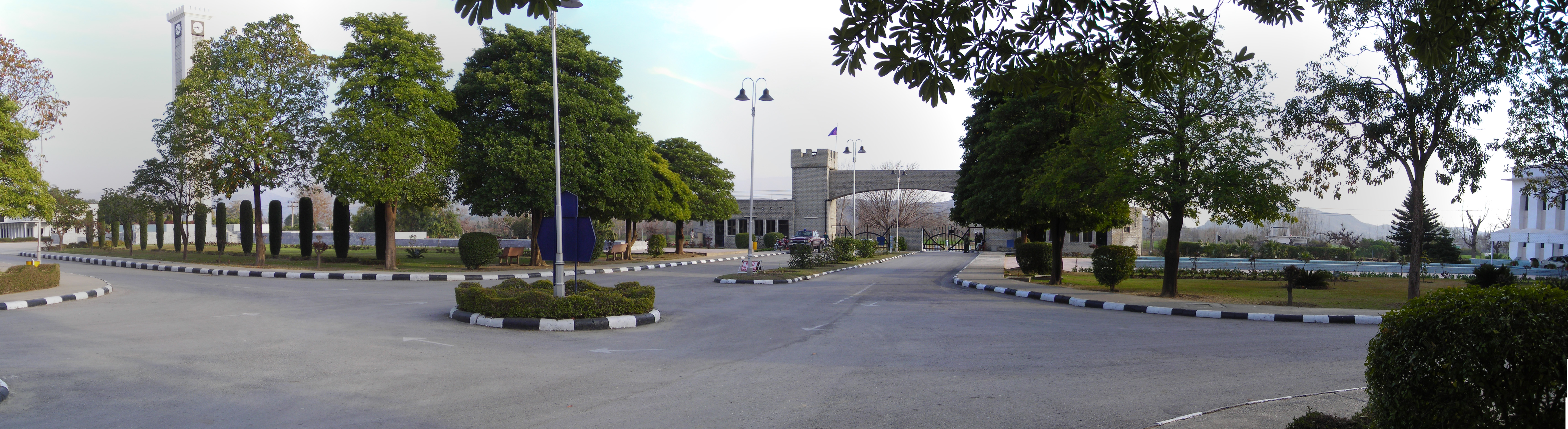 Main Entrance